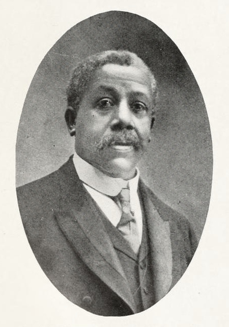 Professor Edward A. Bouchet